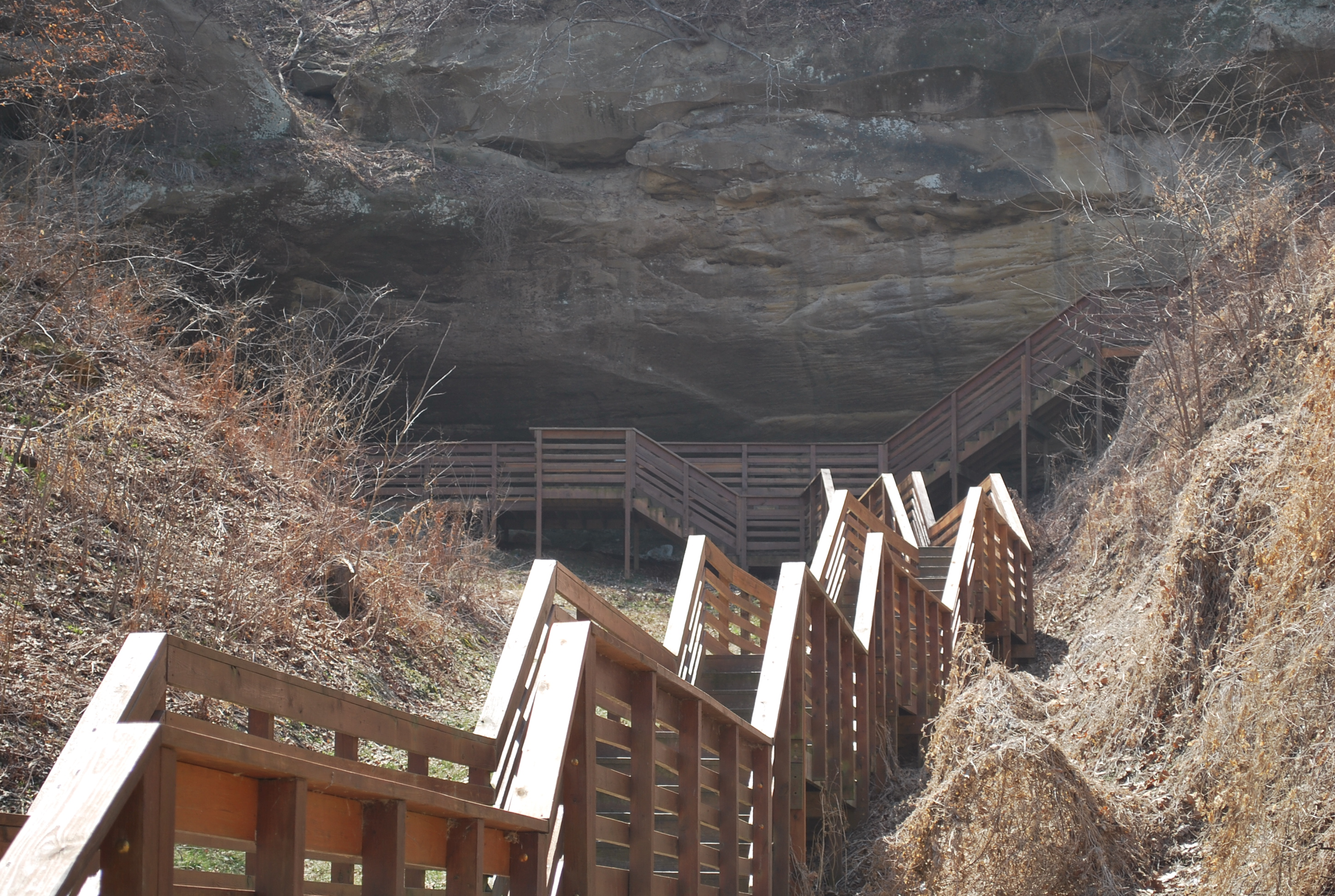 The stairs leading up to the rock shelter for which Indian Cave State Park is named.